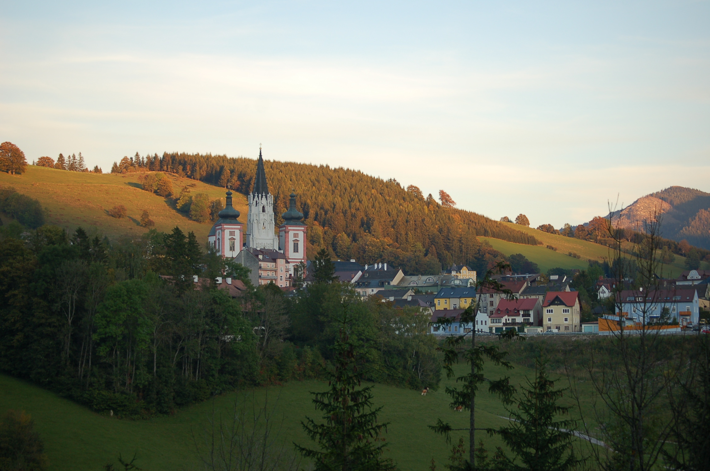 View of Mariazell